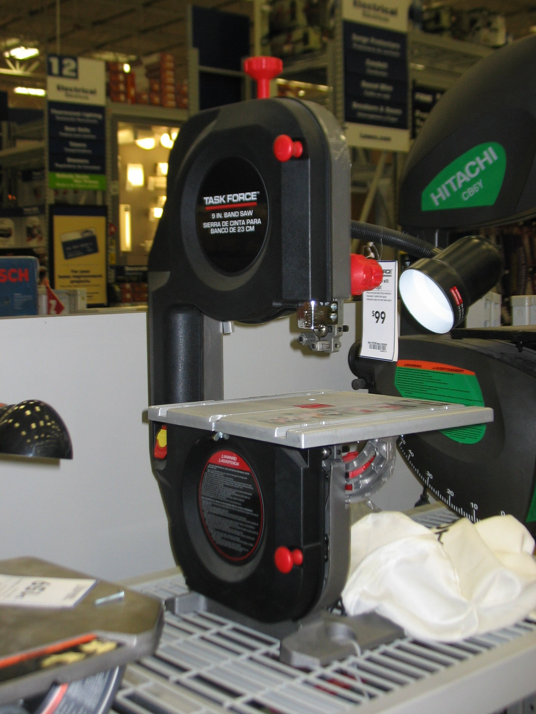 Photo of a bandsaw on display at a Lowes store.